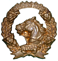 UDF era Regiment Kemp beret badge